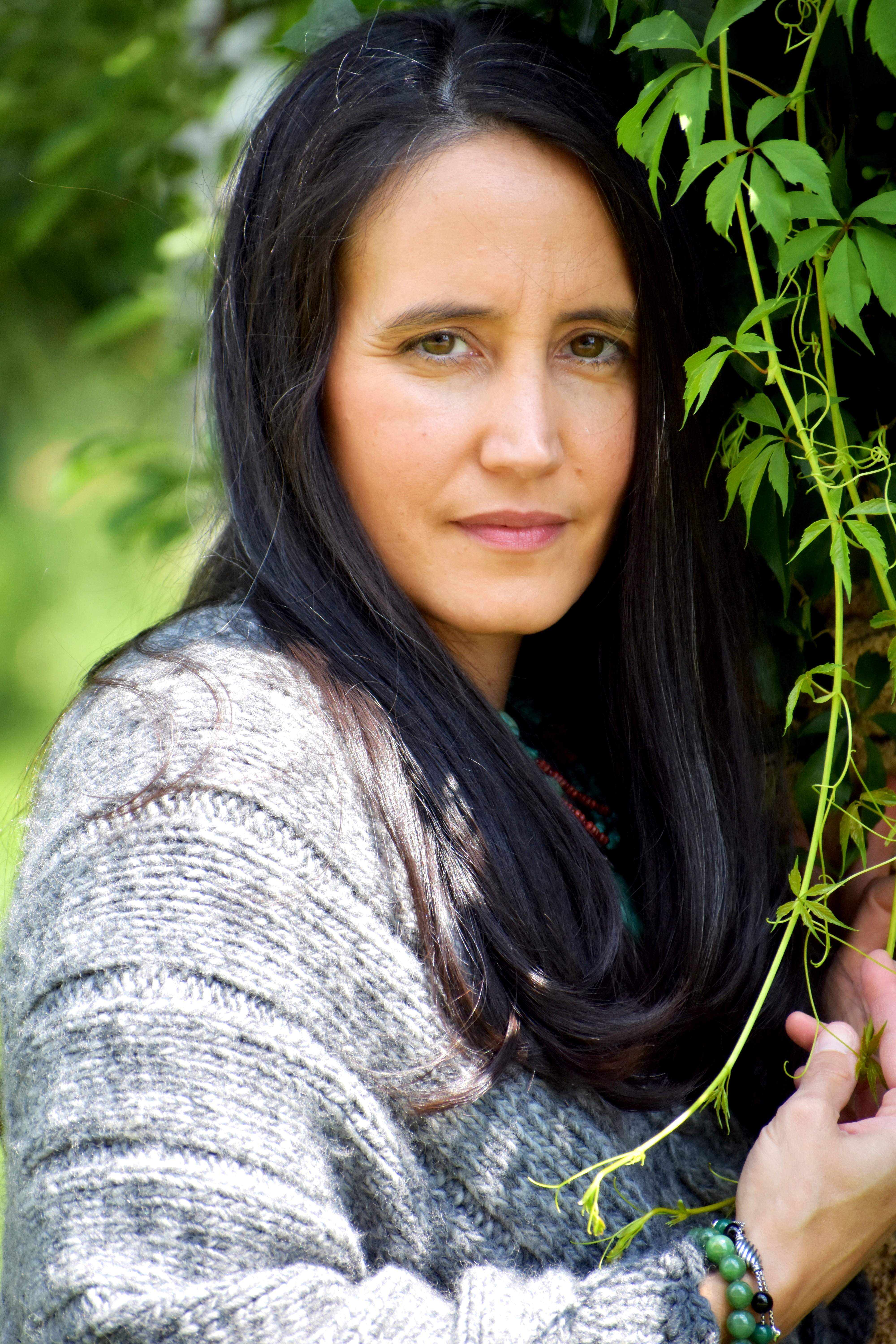 Photo of Shauna Burns taken for her cover single, "Scarborough Fair"